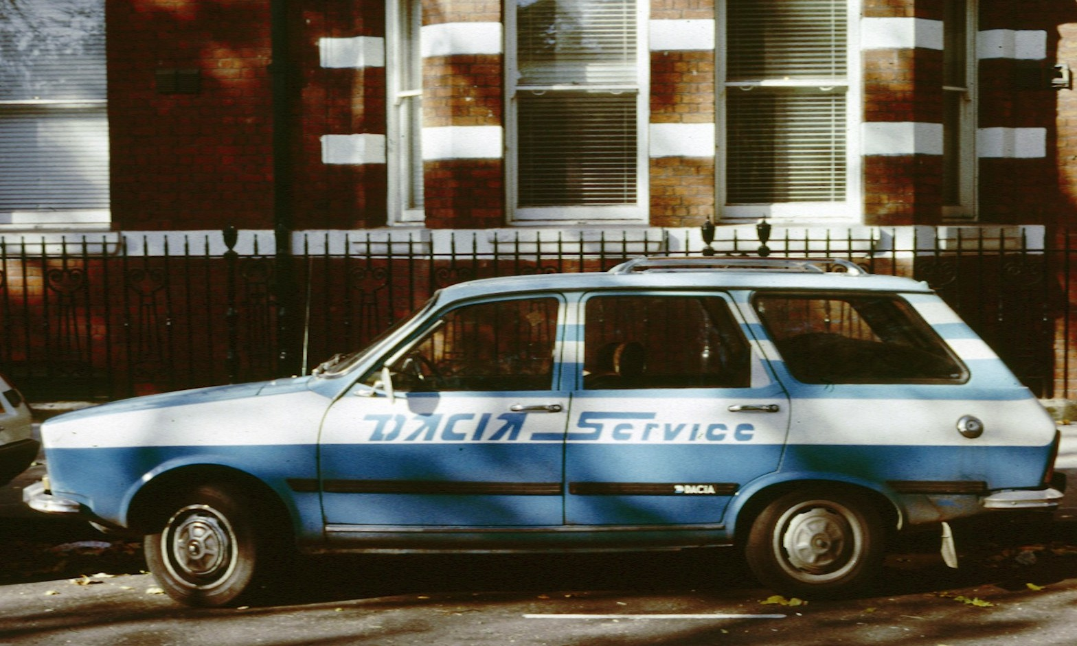 A Dacia 1300 “Break” estate (a Renault 12 built under Romanian license) from between 1969 and 1979.